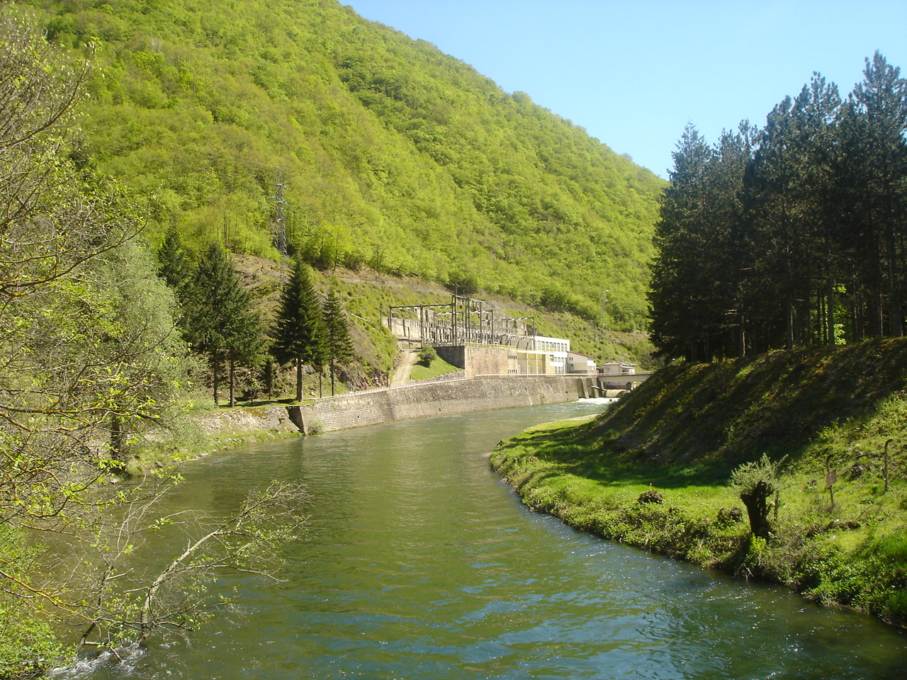 Hydroelectric power plant "Globochica", Macedonia